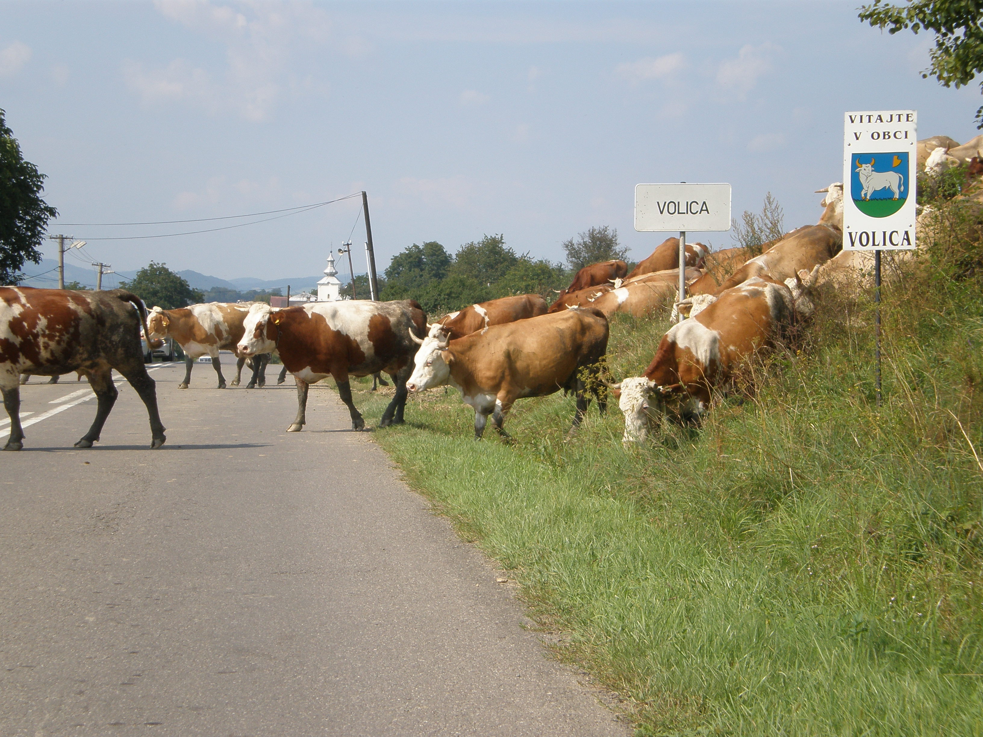 Cows in front of Volica